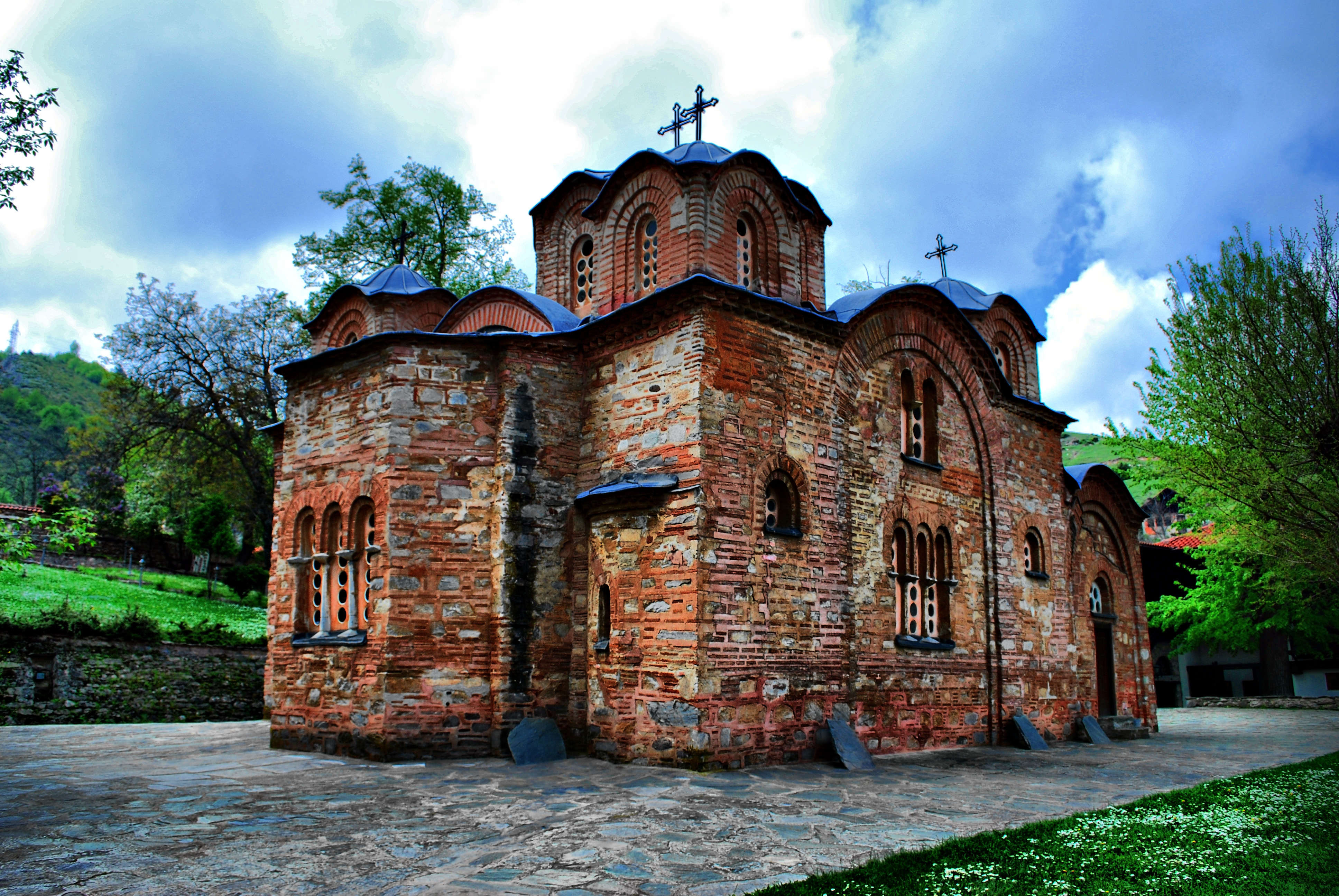 Church of St. Panteleimon in Nerezi, Macedonia